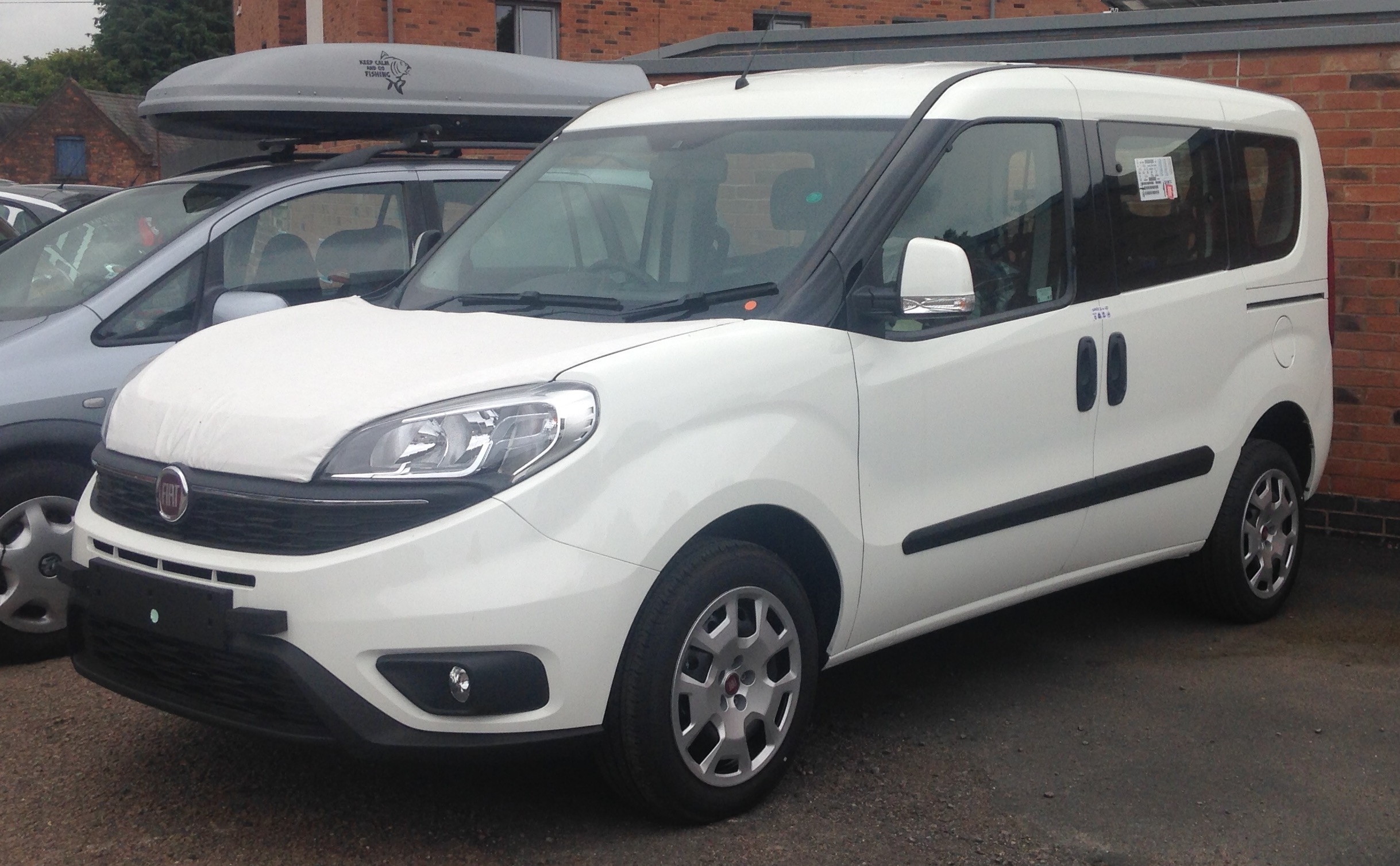 2017 Fiat Doblò LAV Taken in Warwick